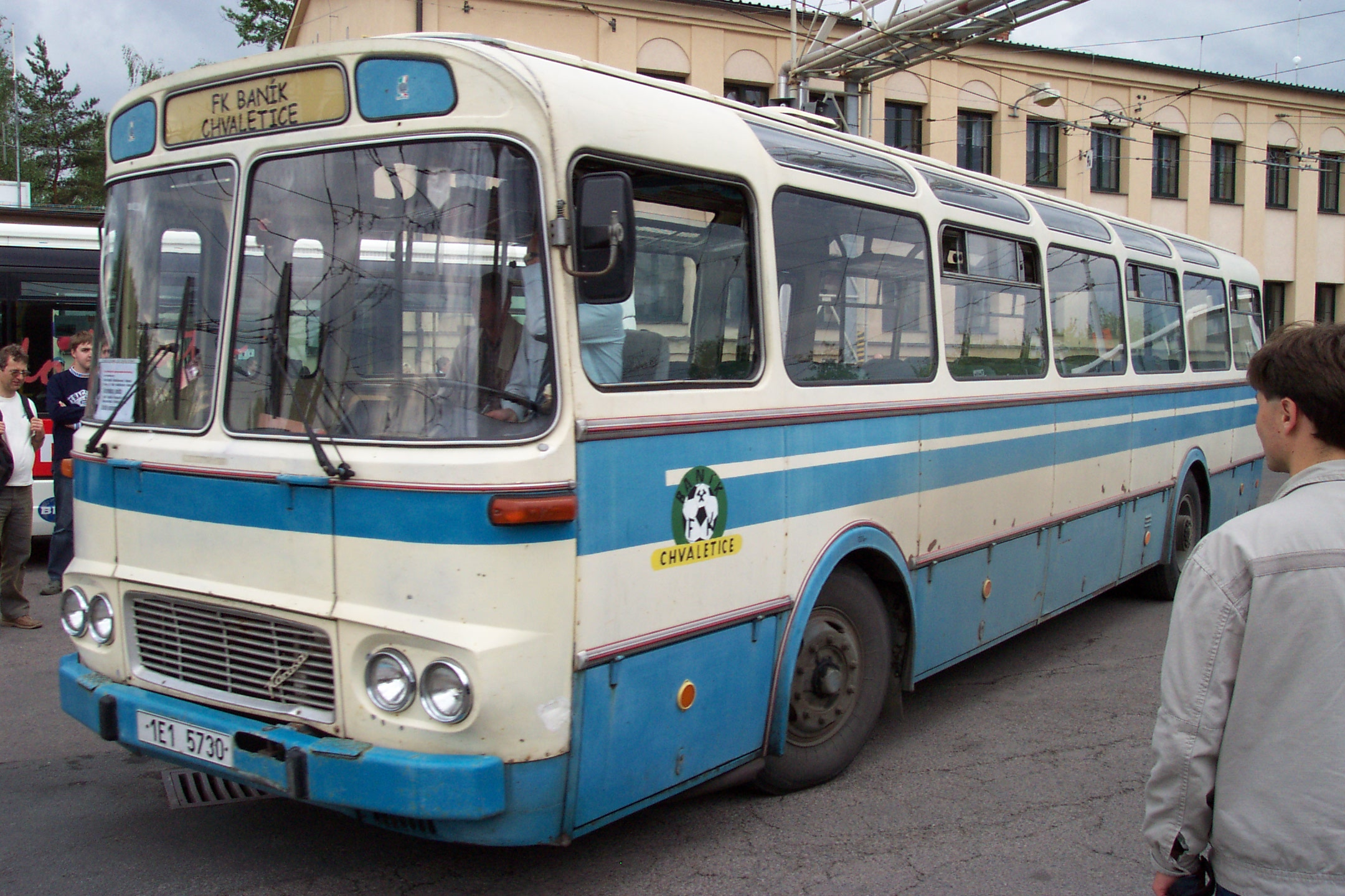 Bus type Karosa ŠL 11 at the 55 years of trolleybus transport in Pardubice